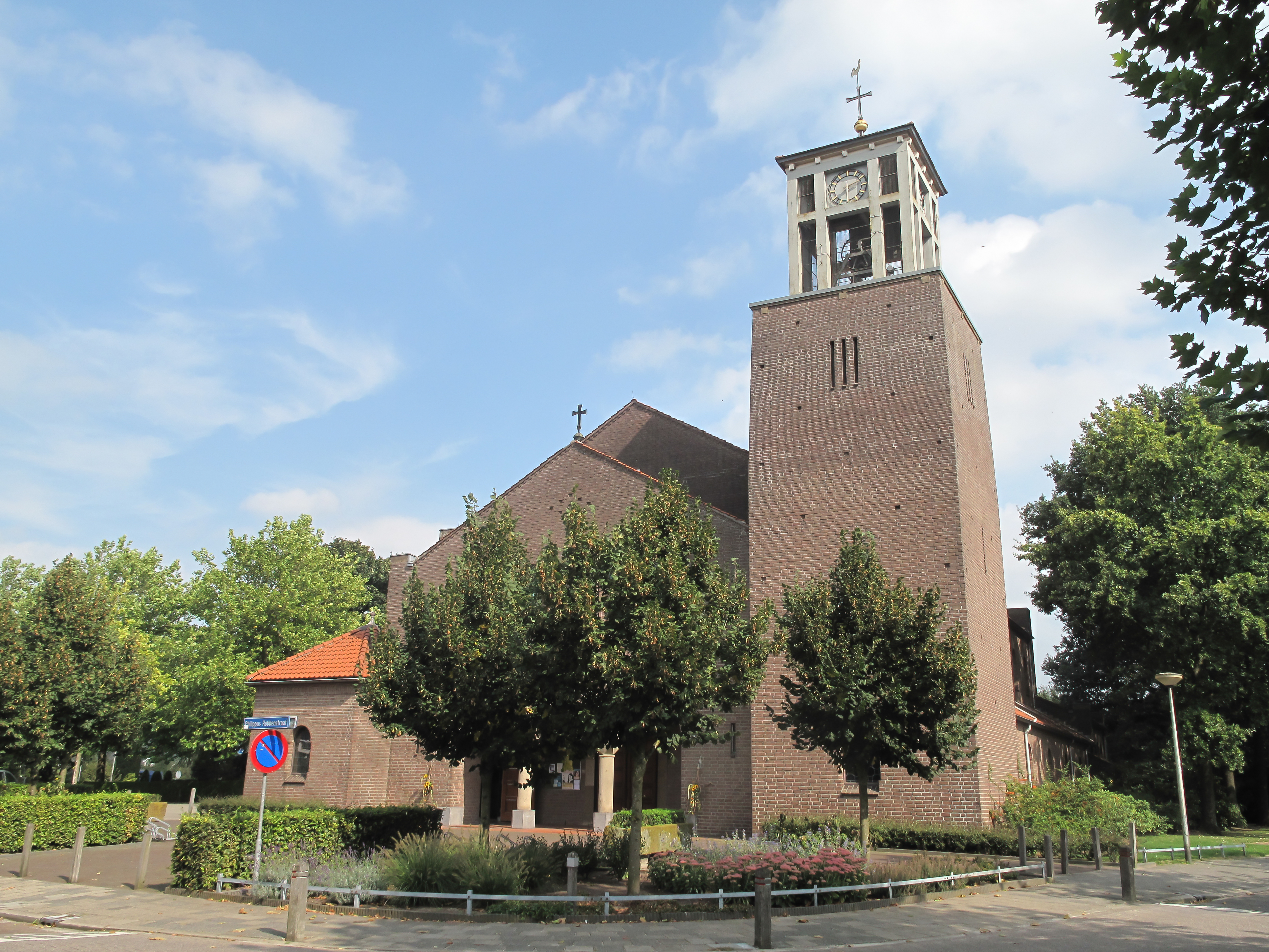 Albergen, church: de Sint Pancratiuskerk